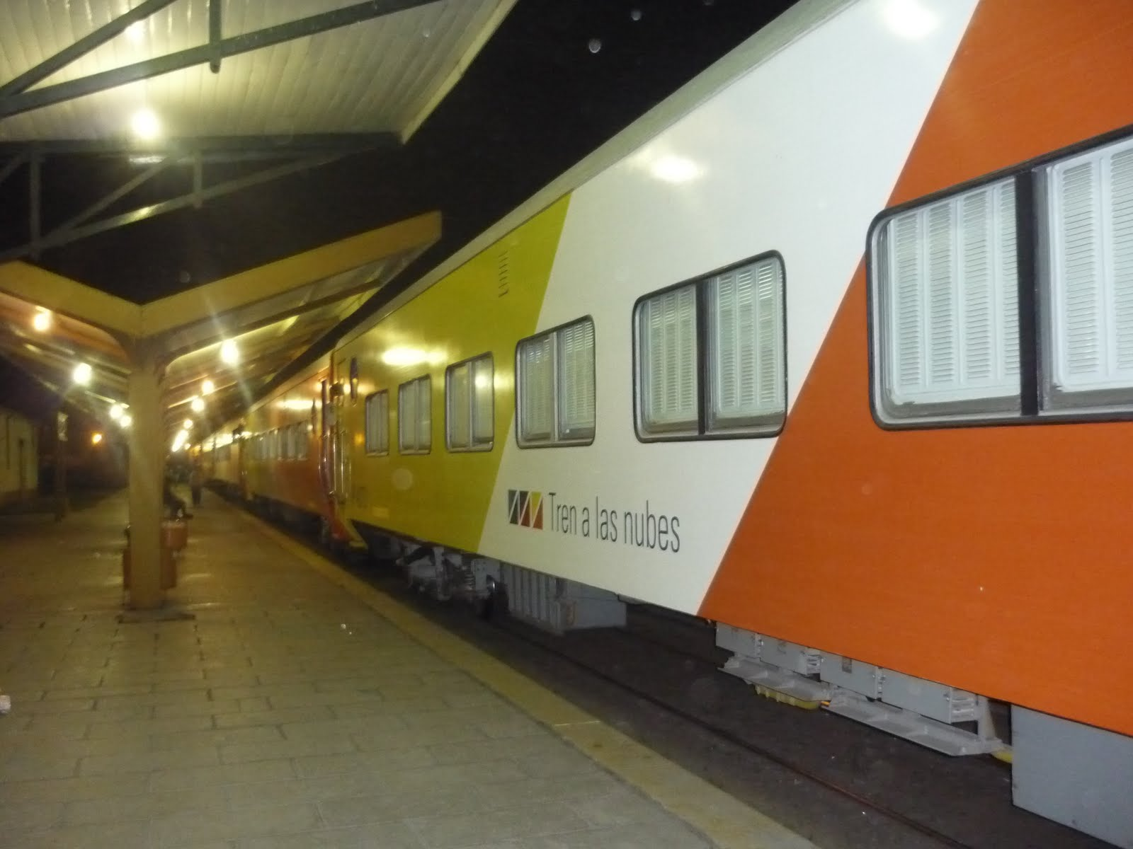 "Tren a las Nubes" (train to the clouds), Salta Province (Argentina).